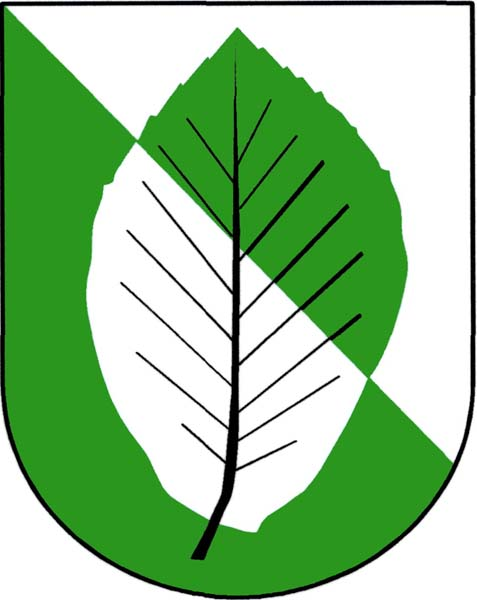 Coat of amrs of Velká Buková , District Rakovník, Czech Republic